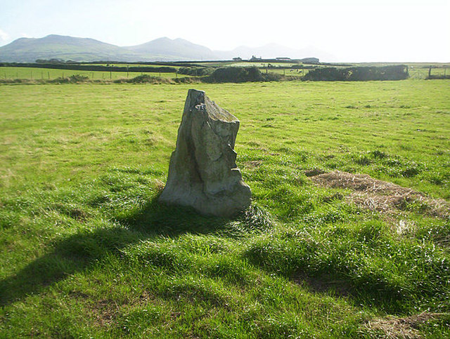 Bodfan Standing Stone A little out of the way gem.